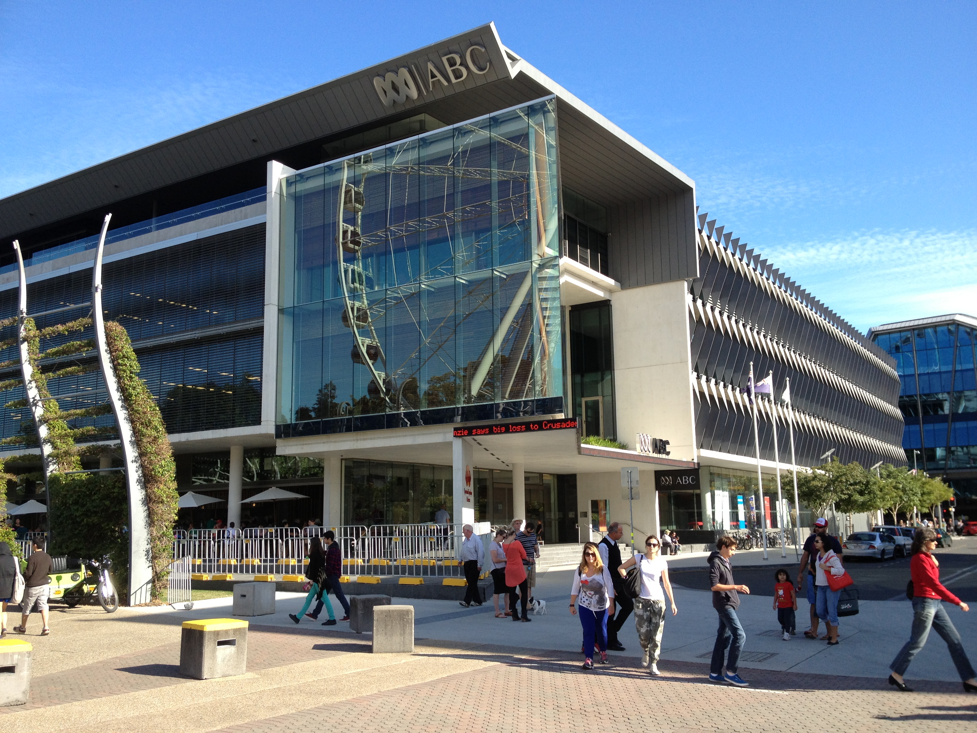 612 ABC Brisbane Radio studios in South Bank, Brisbane, Queensland 07.2013